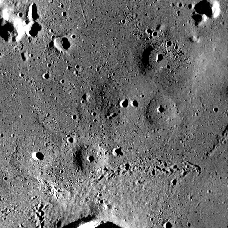 Group of volcanic domes on the Moon, in eastern Oceanus Procellarum, near crater Hortensius (partly visible in the bottom). The group includes 6 domes (plus one more distant; Lena et al., 2013, p.109), but only 3 are distinct. Photo by Lunar Reconnaissance Orbiter, made with Wide Angle Camera on 22 June 2010 from altitude 40 km. Sun elevation is 7.3°. Width of the photo is 50 km, north is up.